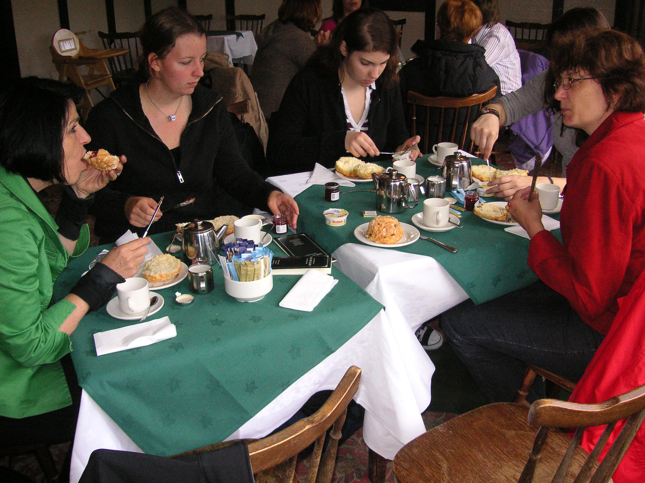 Cream tea at The Orchard, Grantchester, near Cambridge, England.